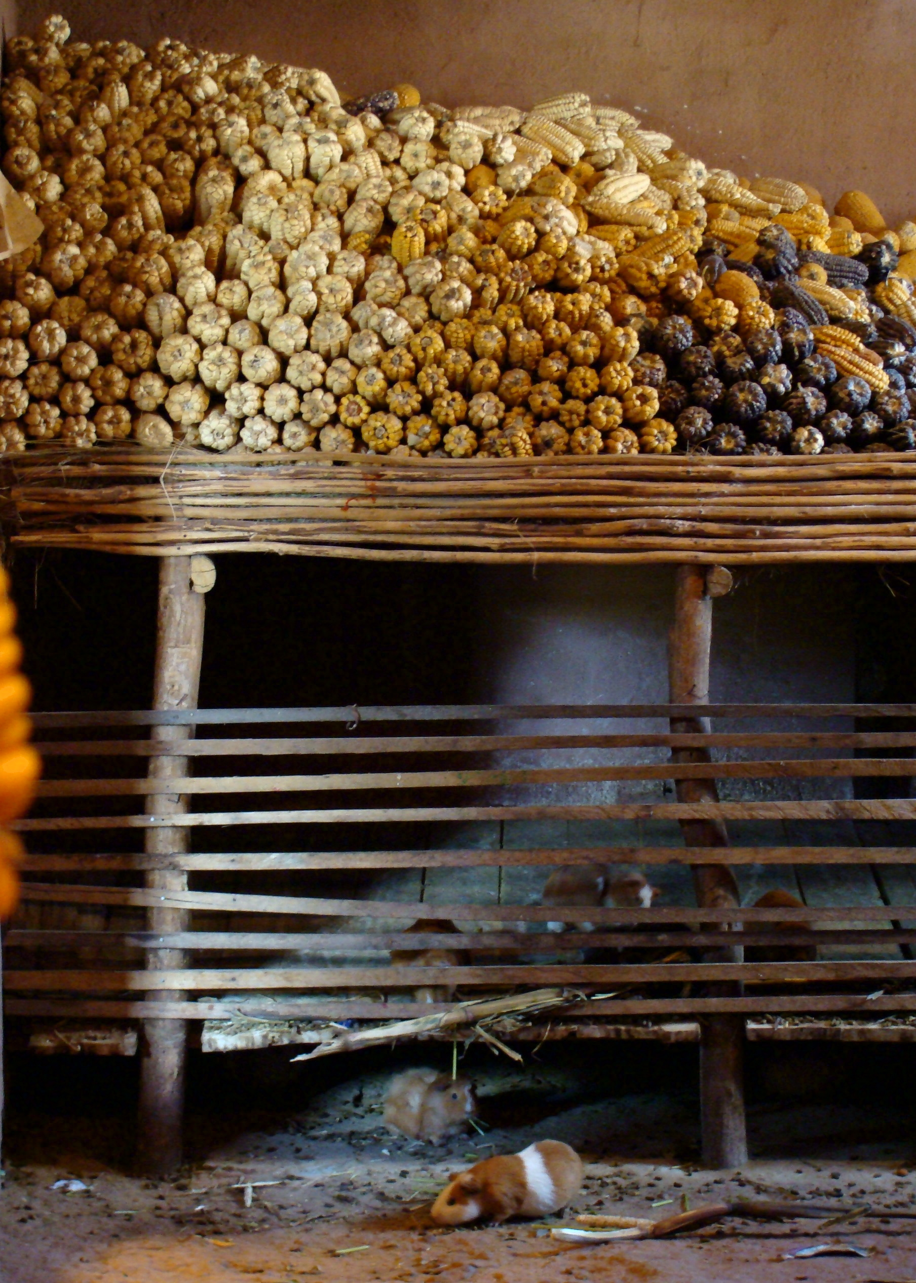 Guinea pigs being raised in the traditional way in Peru.